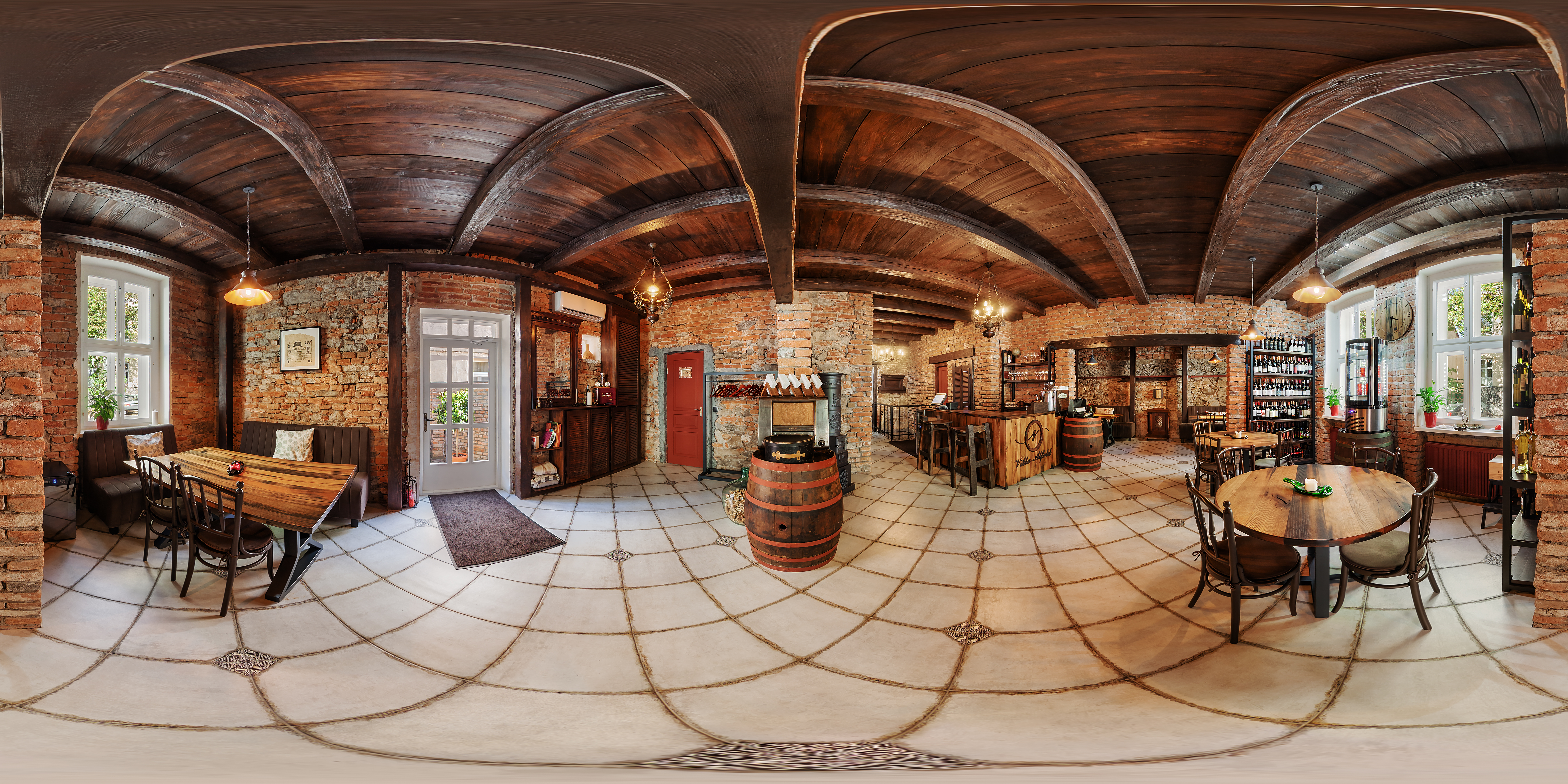 Priest House Interior, Uzhhorod